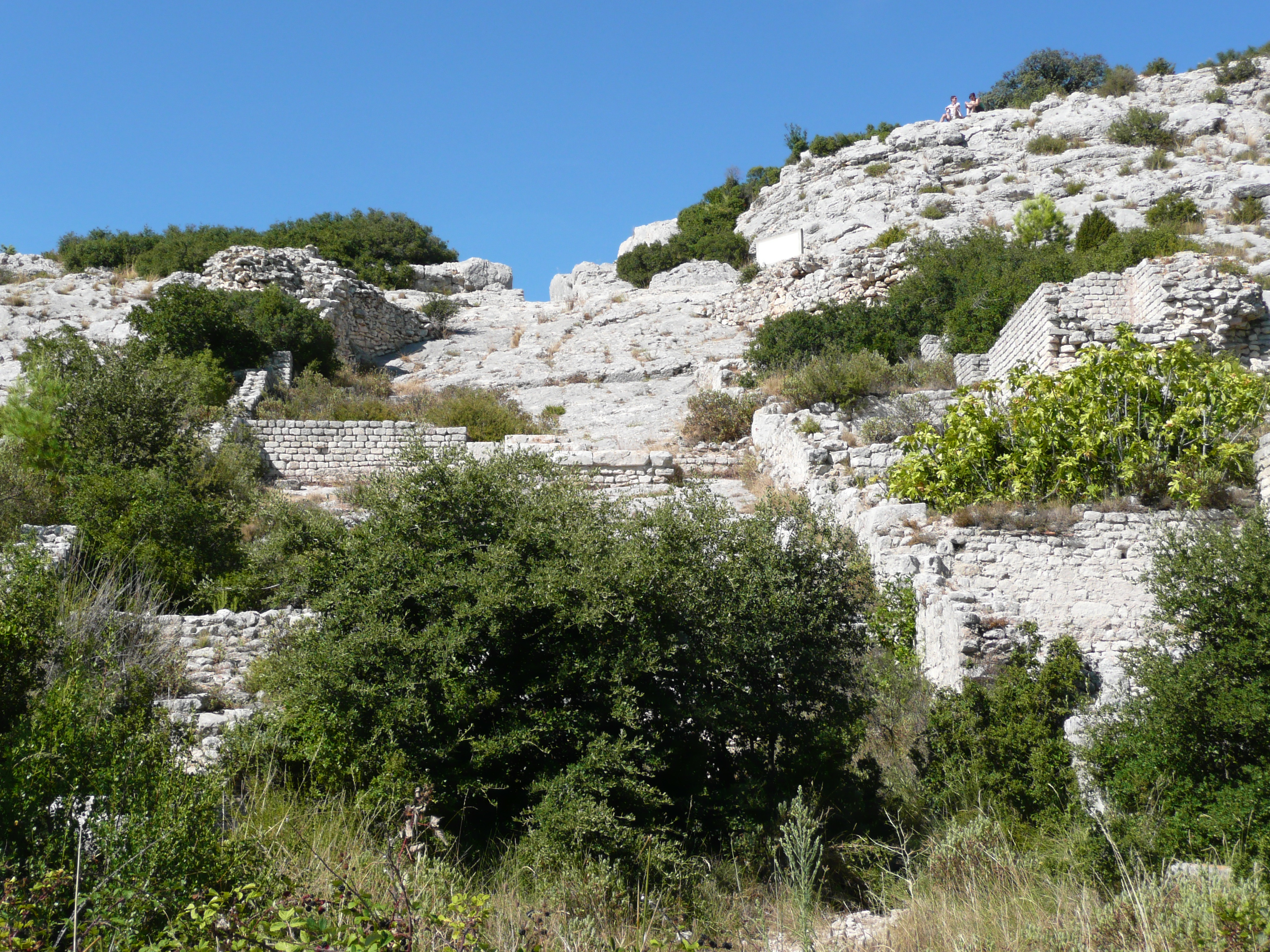 Looking up the mill site